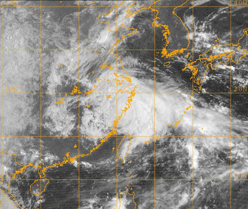 Satellite image of Typhoon Matsa near landfall